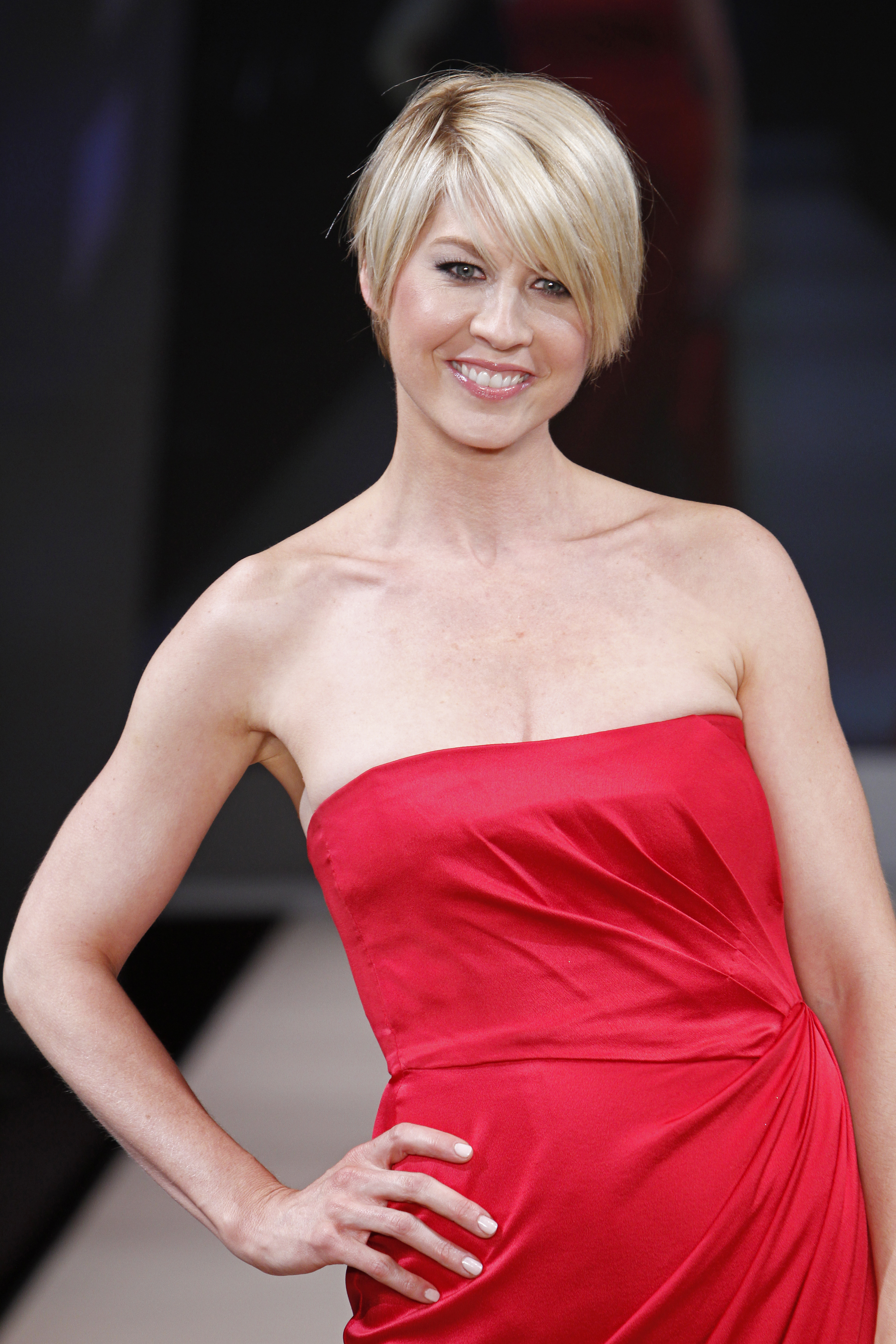 Photo by Dan&Corina Lecca